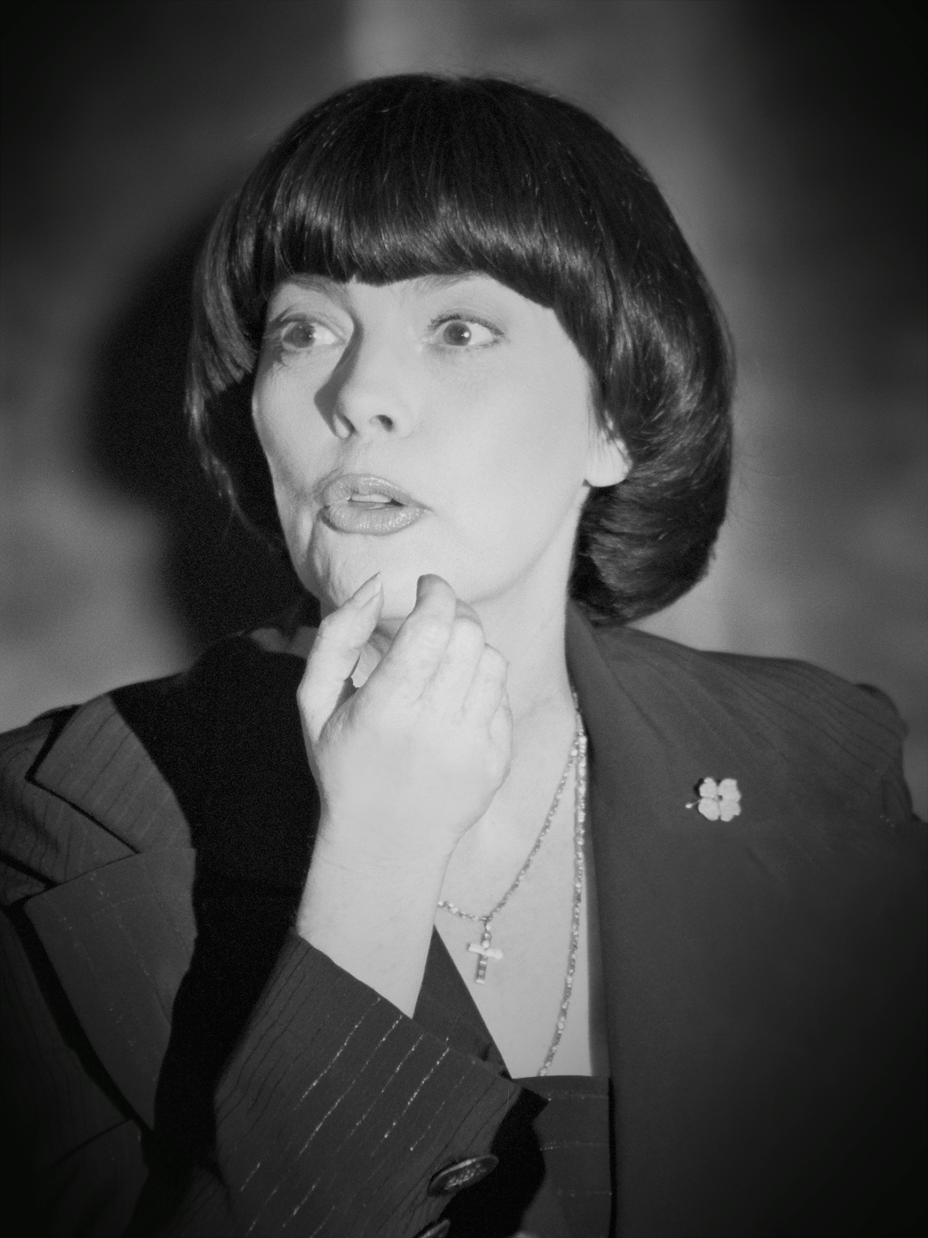 Mireille Mathieu